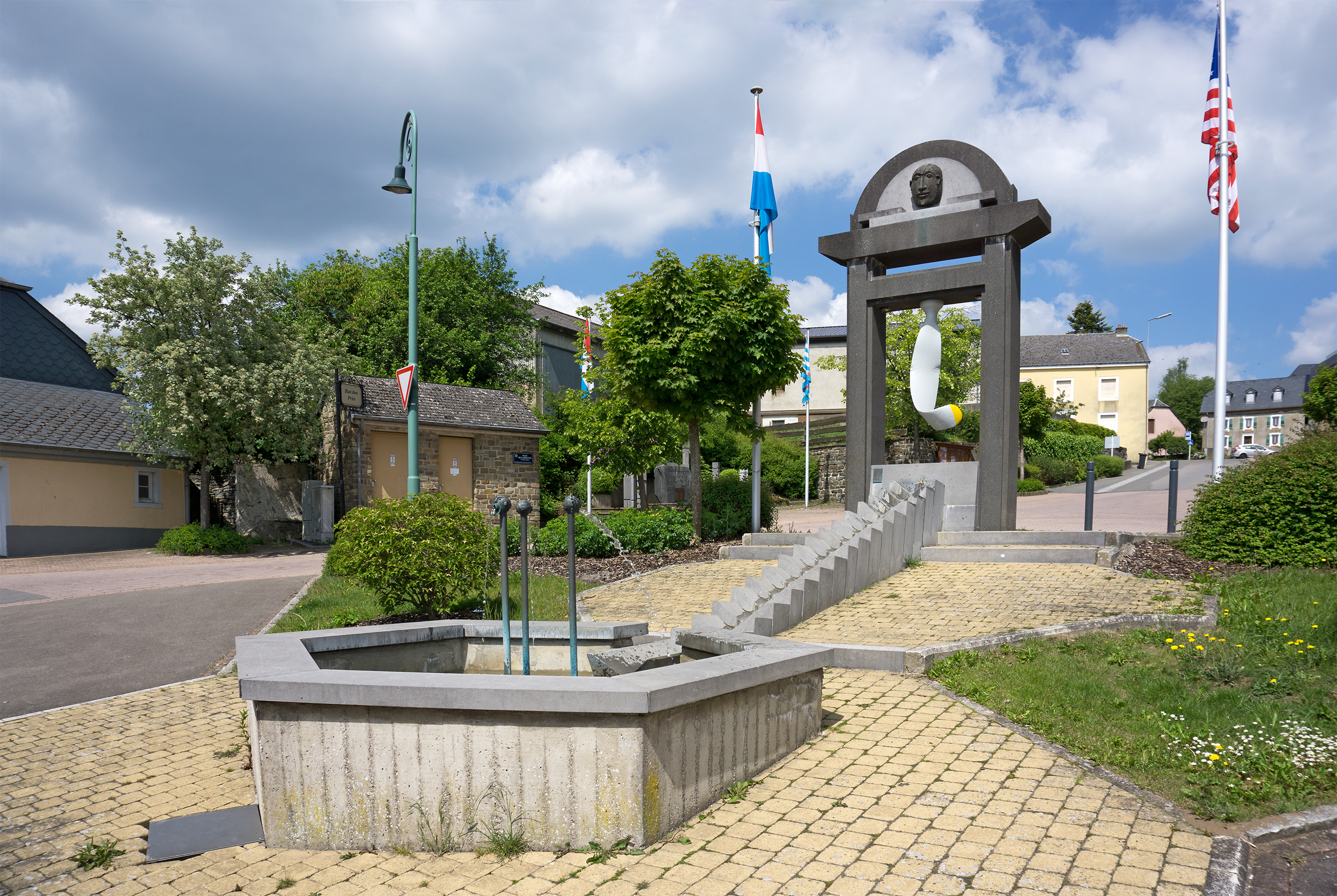 Memorial 385th Bomb Group in Perlé